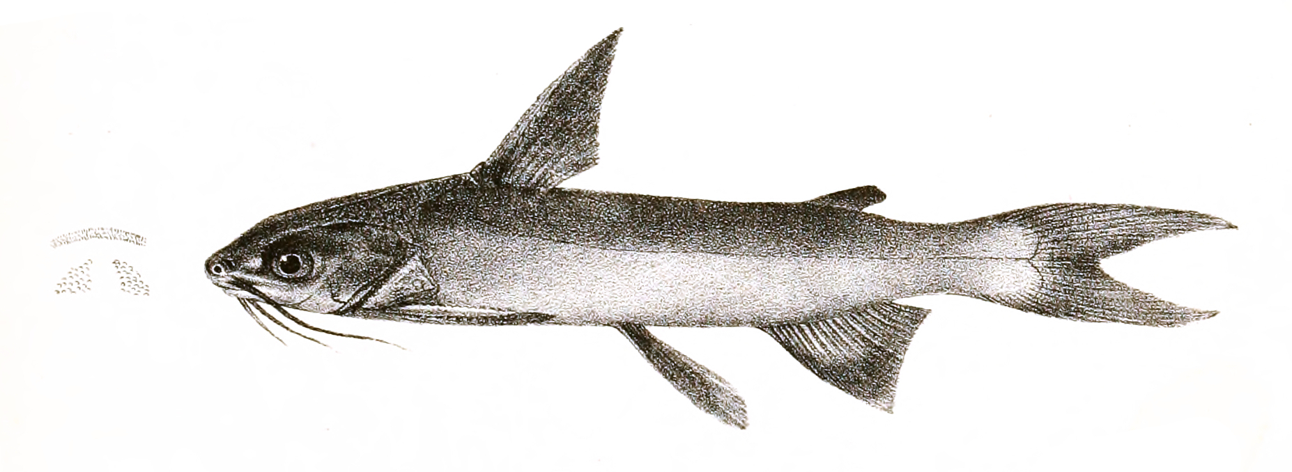 Arius arius syn. A. falcariusThe species names / identity need verification. The original plates showed the fishes facing right and have been flipped here. Arius falcarius